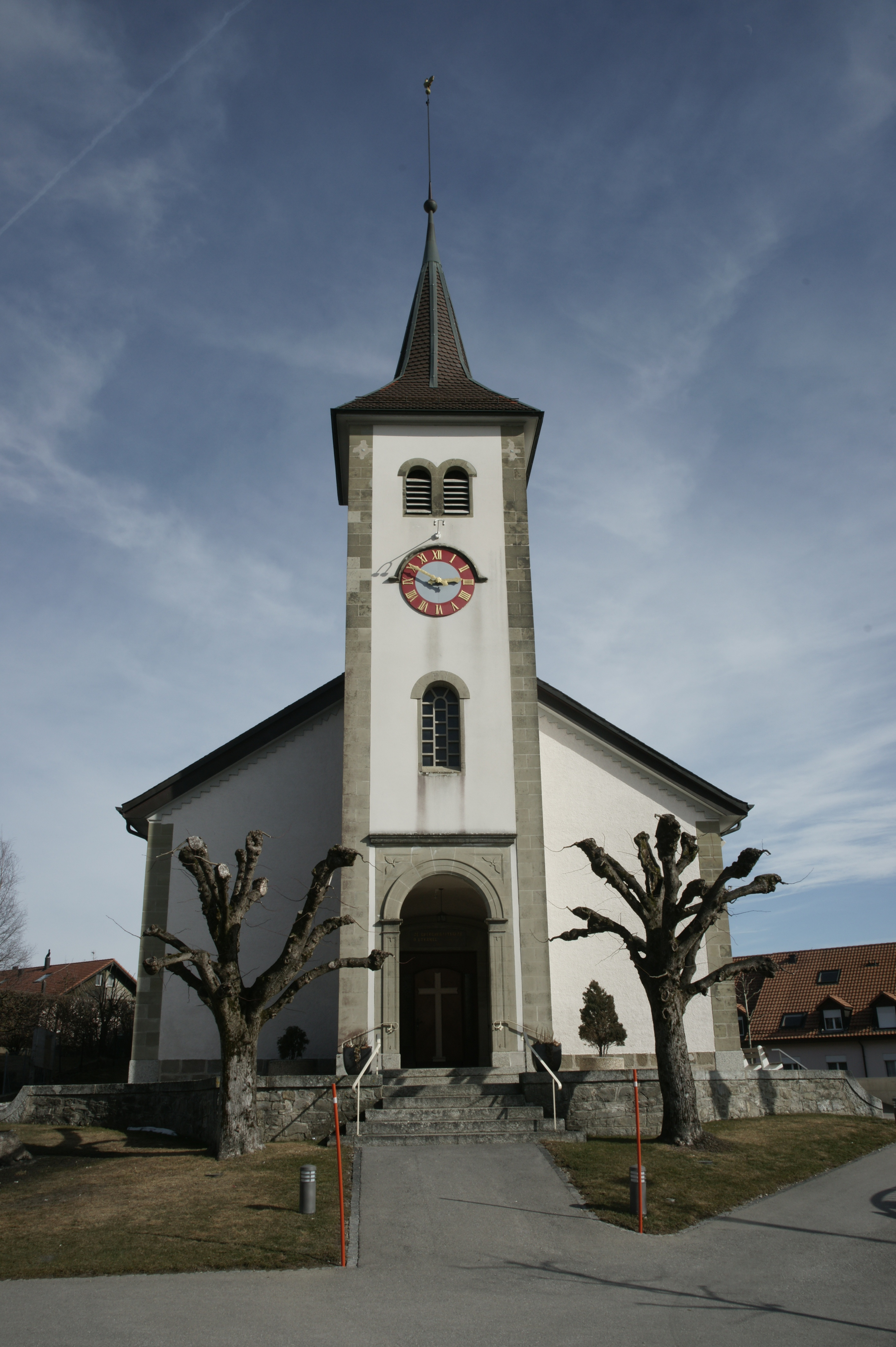 Church of Forel-Lavaux, Vaud, Switzerland